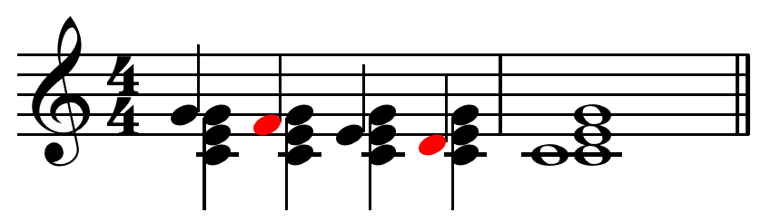 Example of nonchord tones (in red).